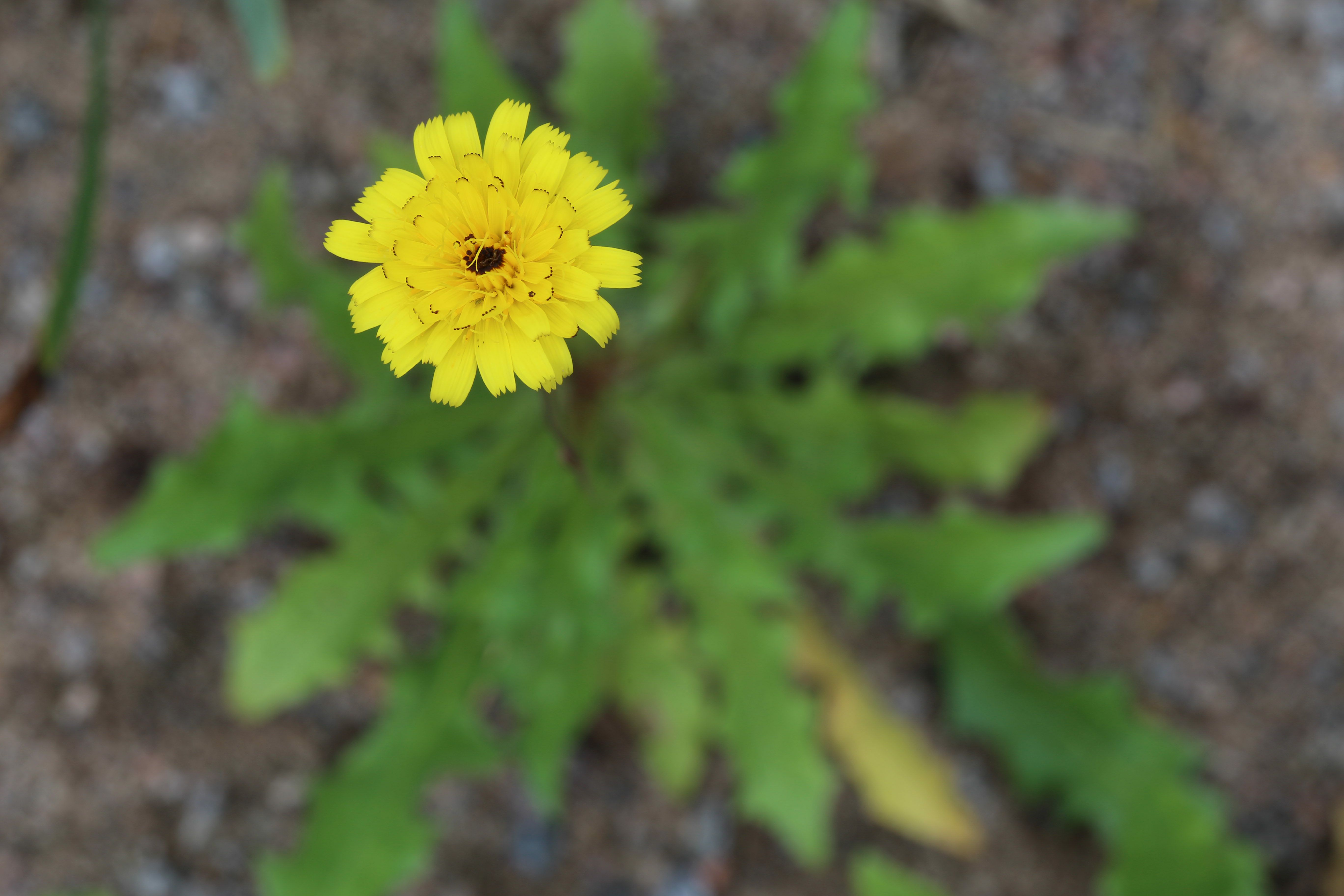 Leontodon caucasicus in Gothenburg Botanical Garden. Plant id: 2016-271 s Z -- GBT/NCE